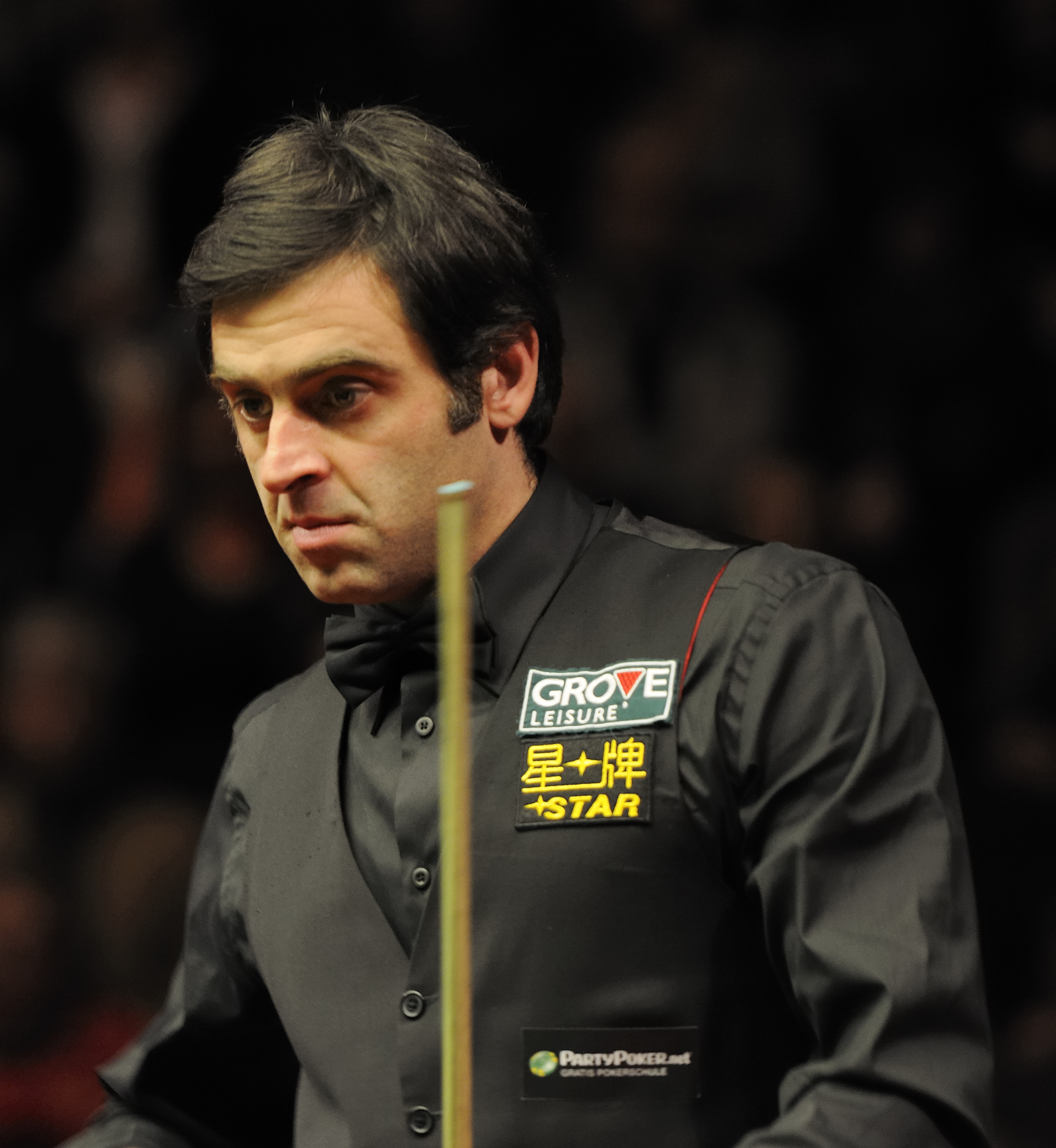 Picture taken in Berlin during the Snooker German Masters in 2011. Ronnie O’Sullivan.